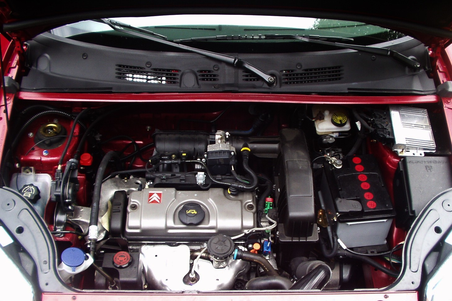 Engine of a Citroën Berlingo